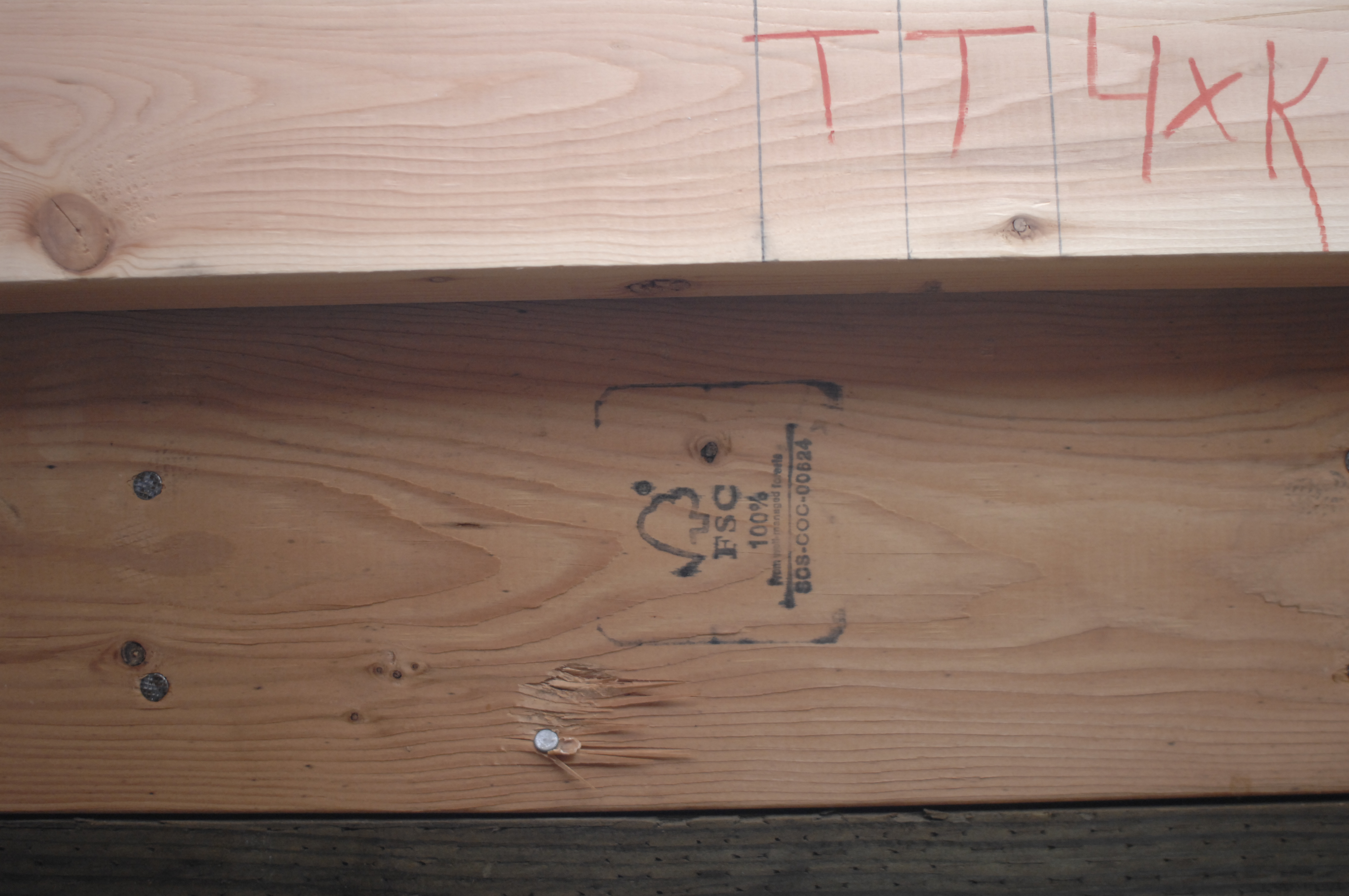 FSC Certified Lumber